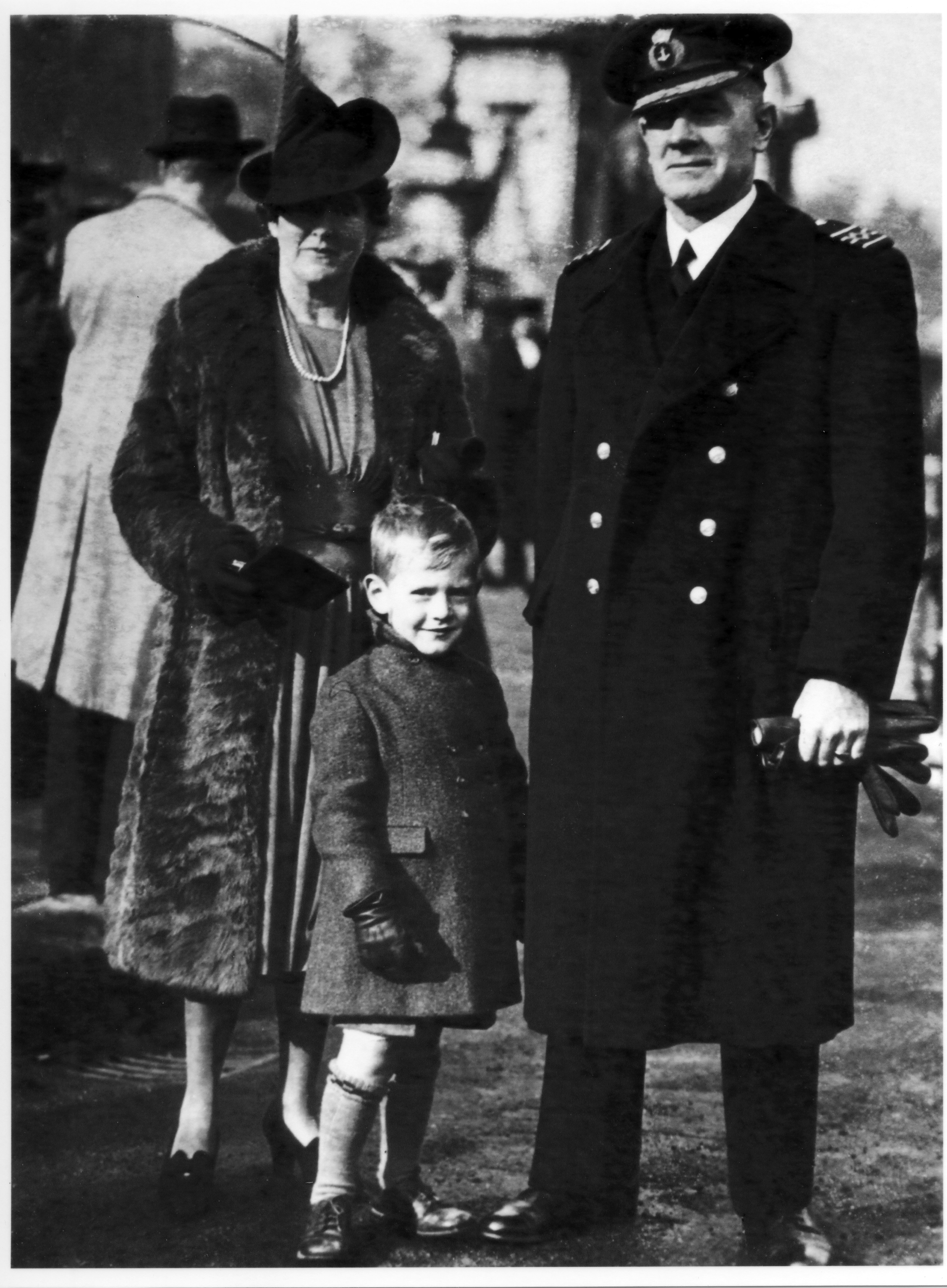 Picture of Captain William Edward Rawlins Eyton-Jones, OBE, standing outside Buckingham Palace with his wife and son, before receiving his OBE from King George VI, taken in 1942.